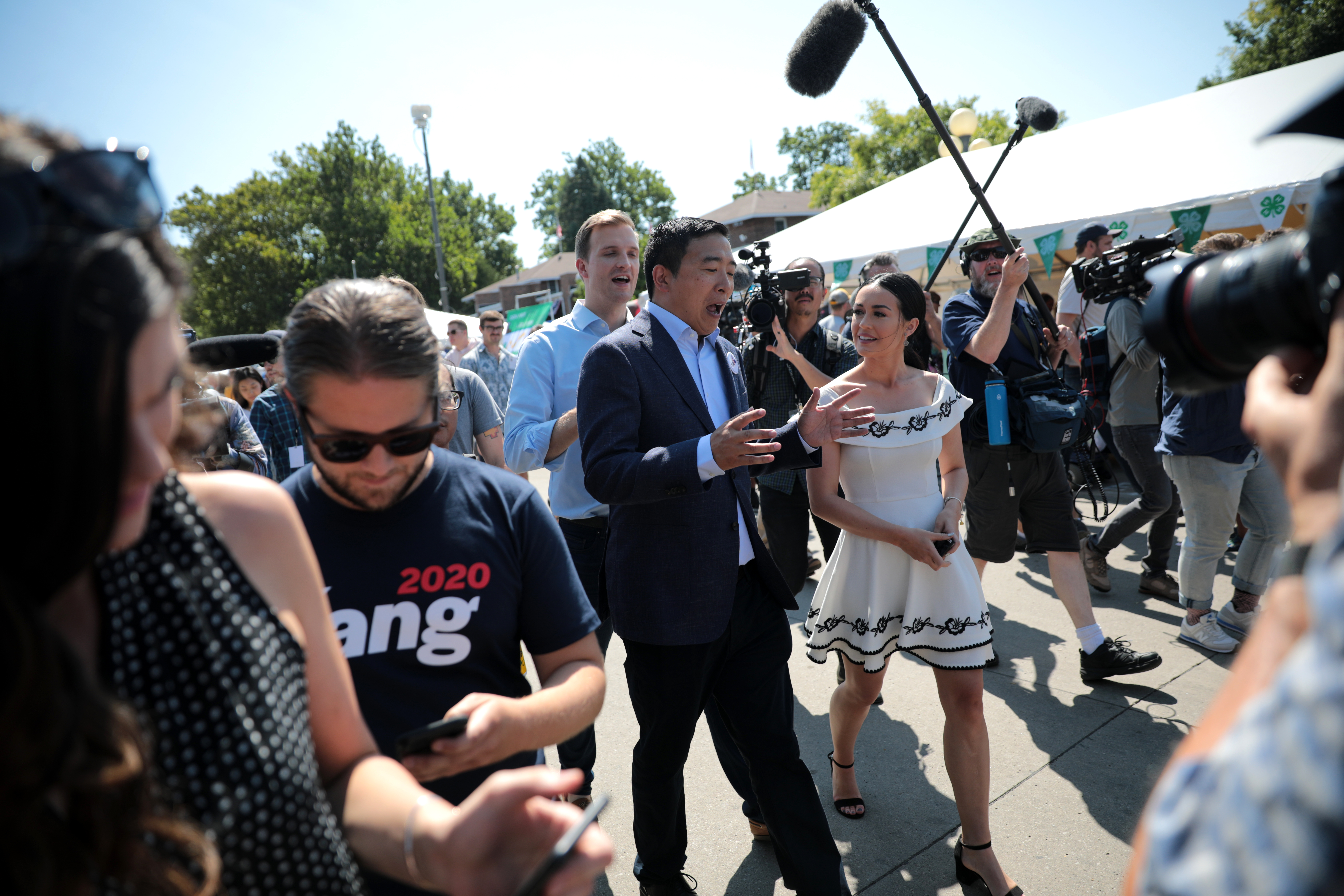 Andrew Yang speaking with the media at the 2019 Iowa State Fair in Des Moines, Iowa.